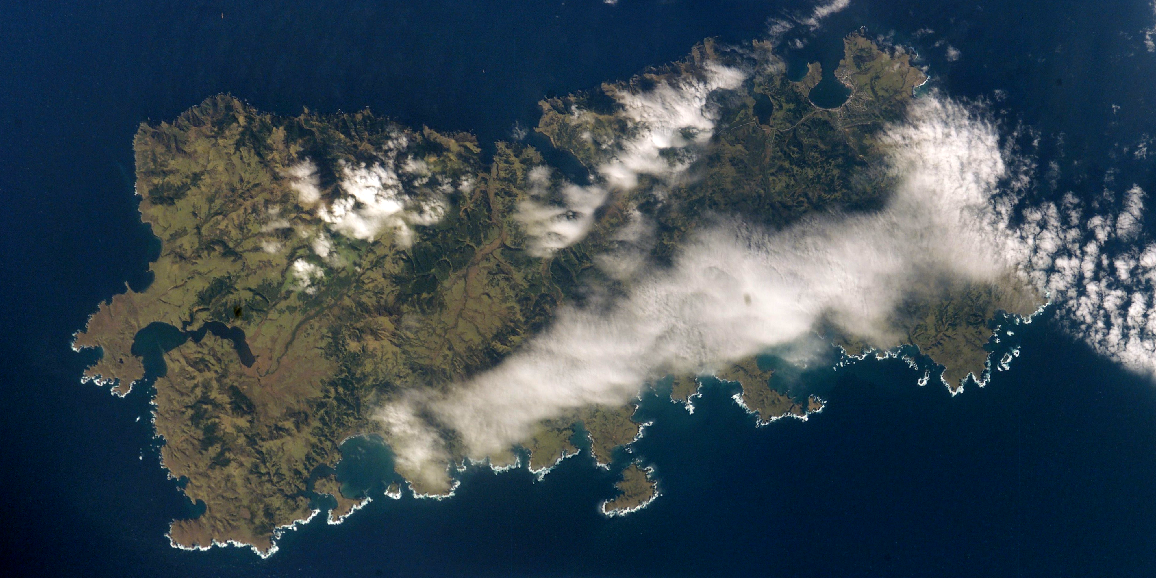 NASA astronaut image of Shikotan Island (Kuril Islands, Russia) in the Pacific Ocean